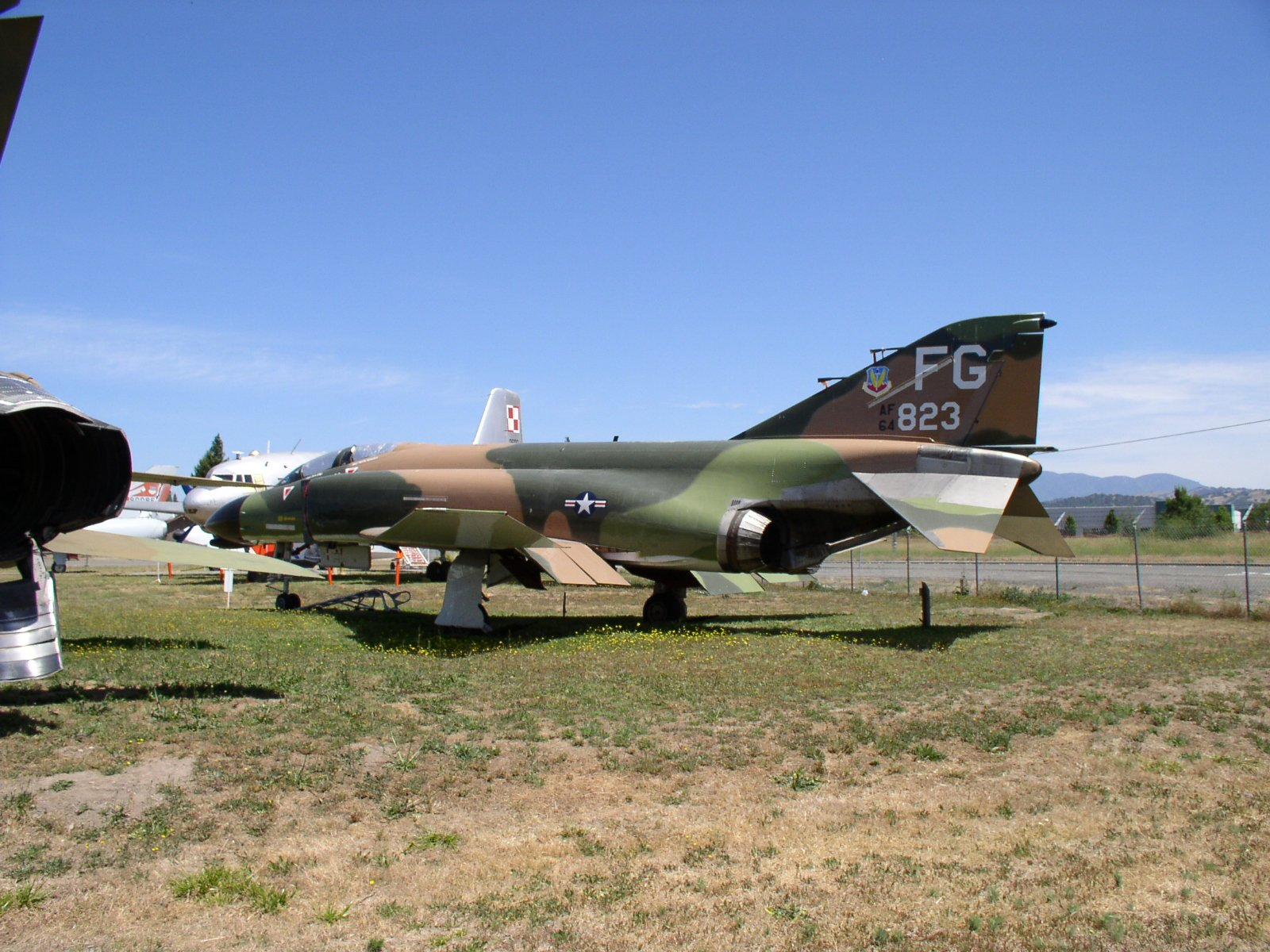 McDonnell Douglas F-4 Phantom II. Taken in Pacific Coast Air Museum, Santa Rosa, California, USA.